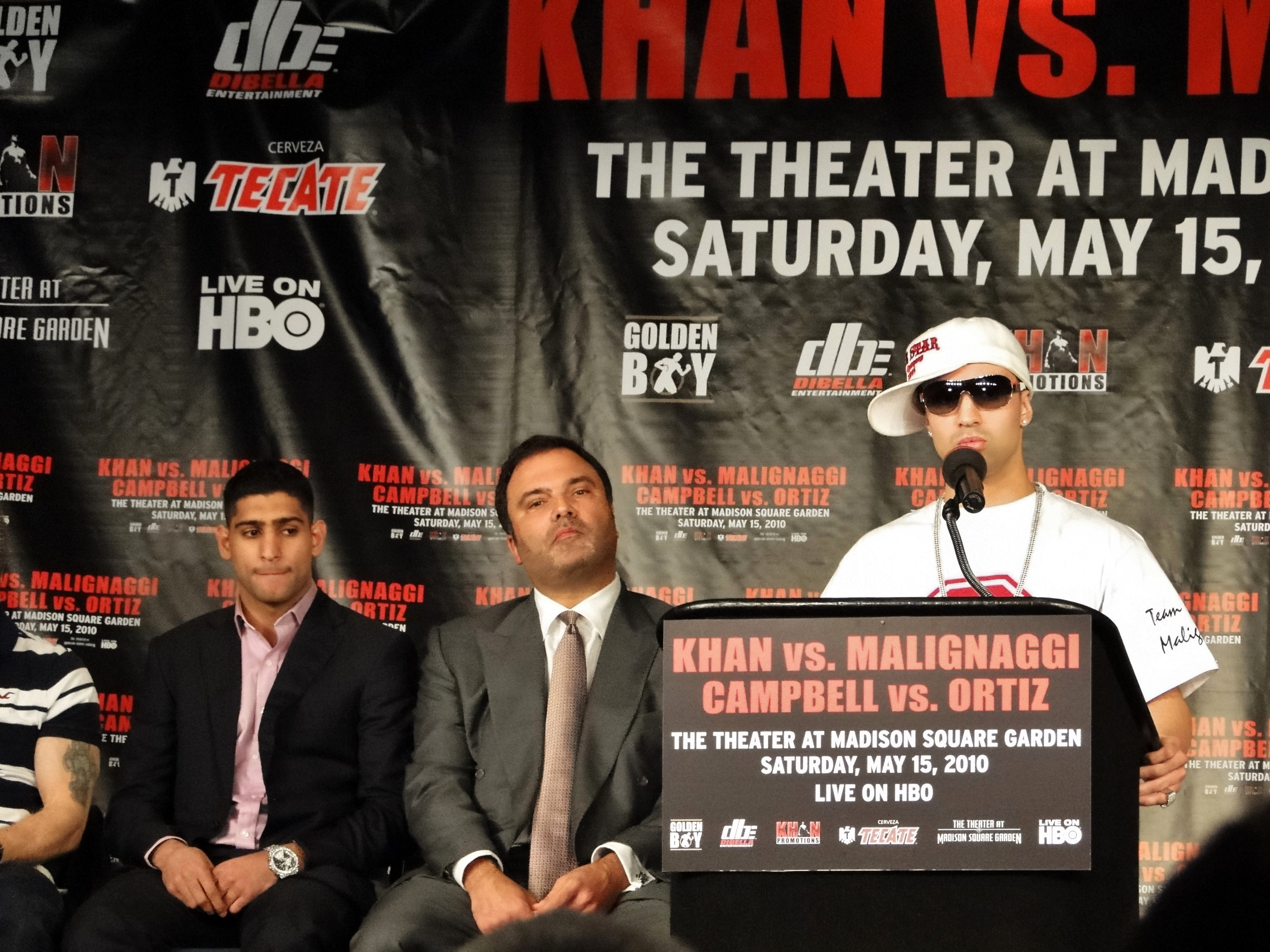 Paulie Malignaggi making a speech at the press conference for the fight against Amir Khan.